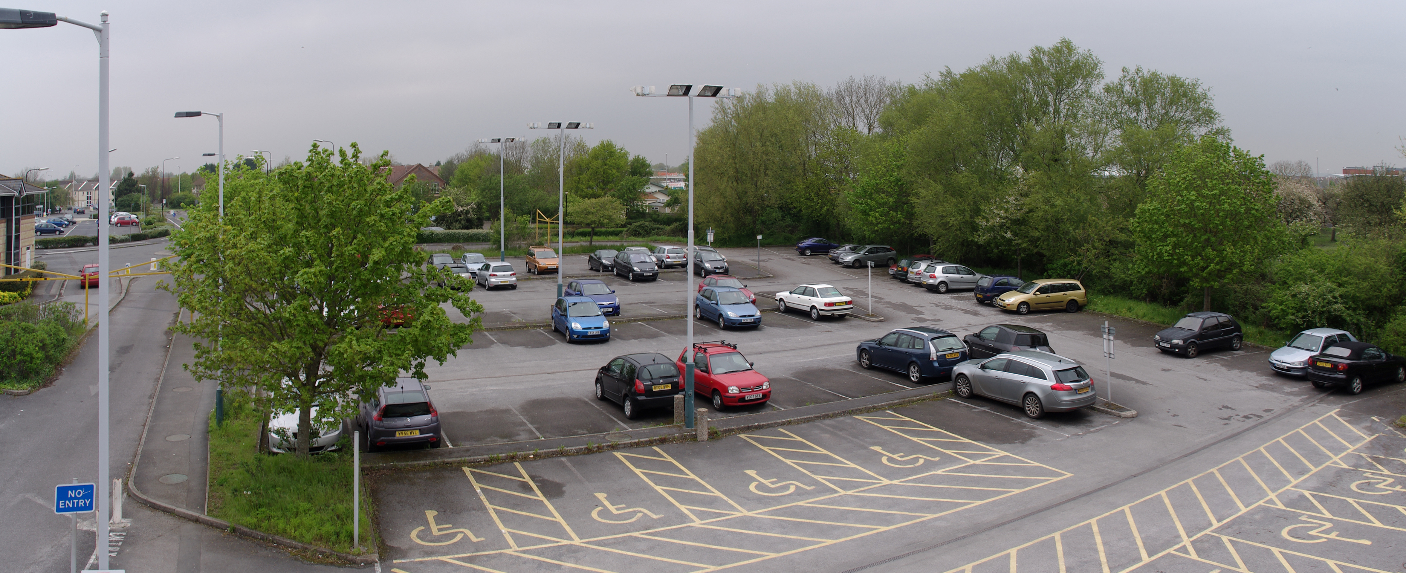 Panorama over the car park at Worle railway station. It was meant to encompass the entire car park, but the other half was unusable.